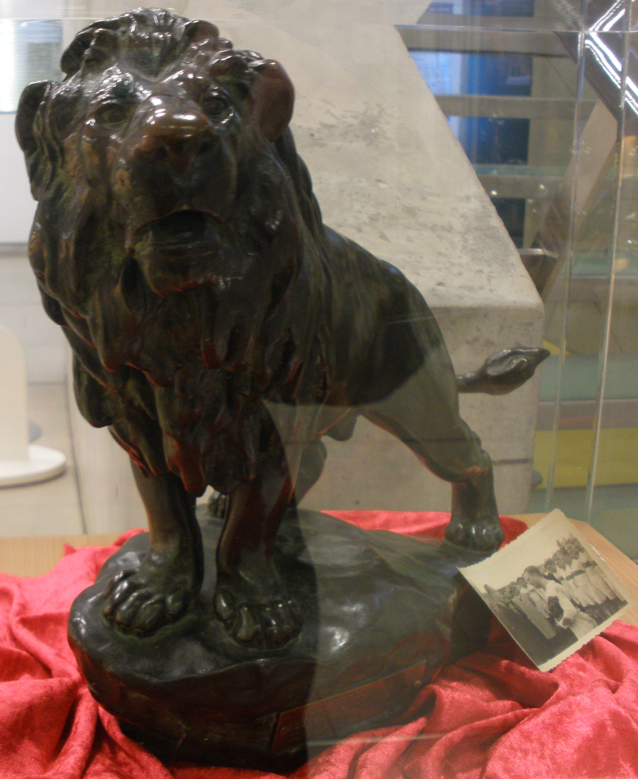 Trophy donated by Lord Mayor Arnulf Klett for a football city ​​tournament in Stuttgart in 1945.